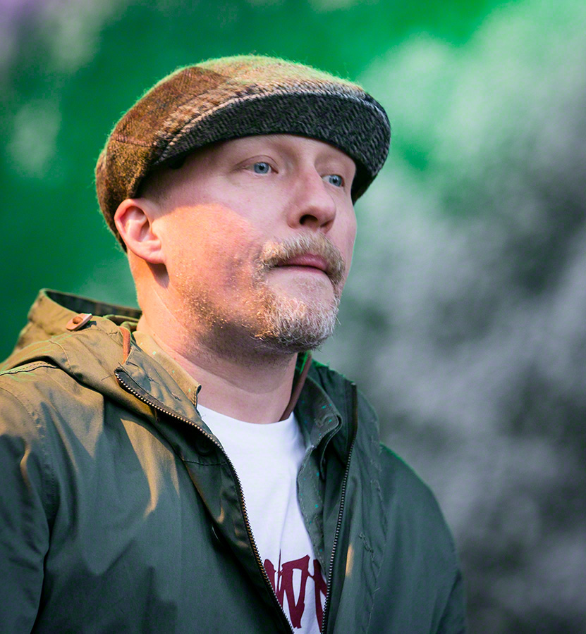 André Martin Hadland performs with Tommy Tee, T.P. Allstars and guests at Quart Festival in Kristiansand on 29. June 2016.